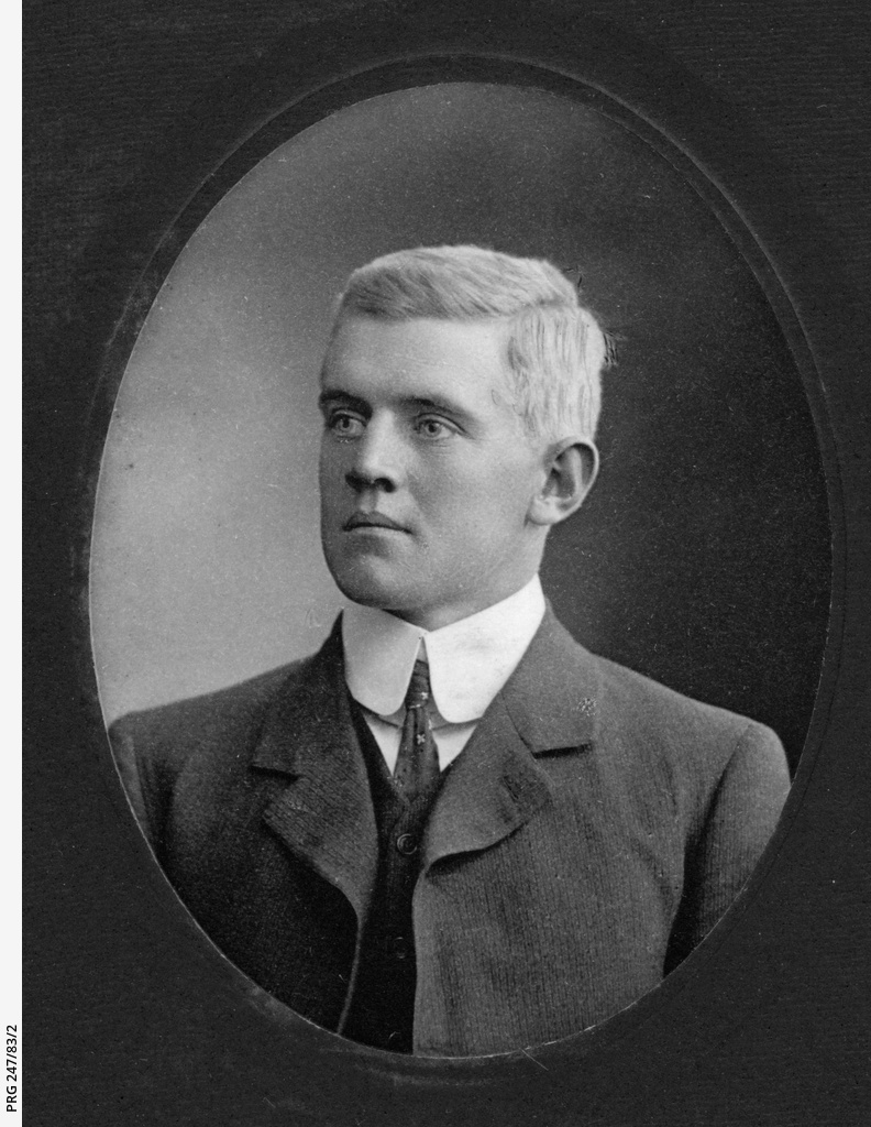 Essington Lewis, son of the Hon. John Lewis and Martha Ann (nee Brook), about 1900